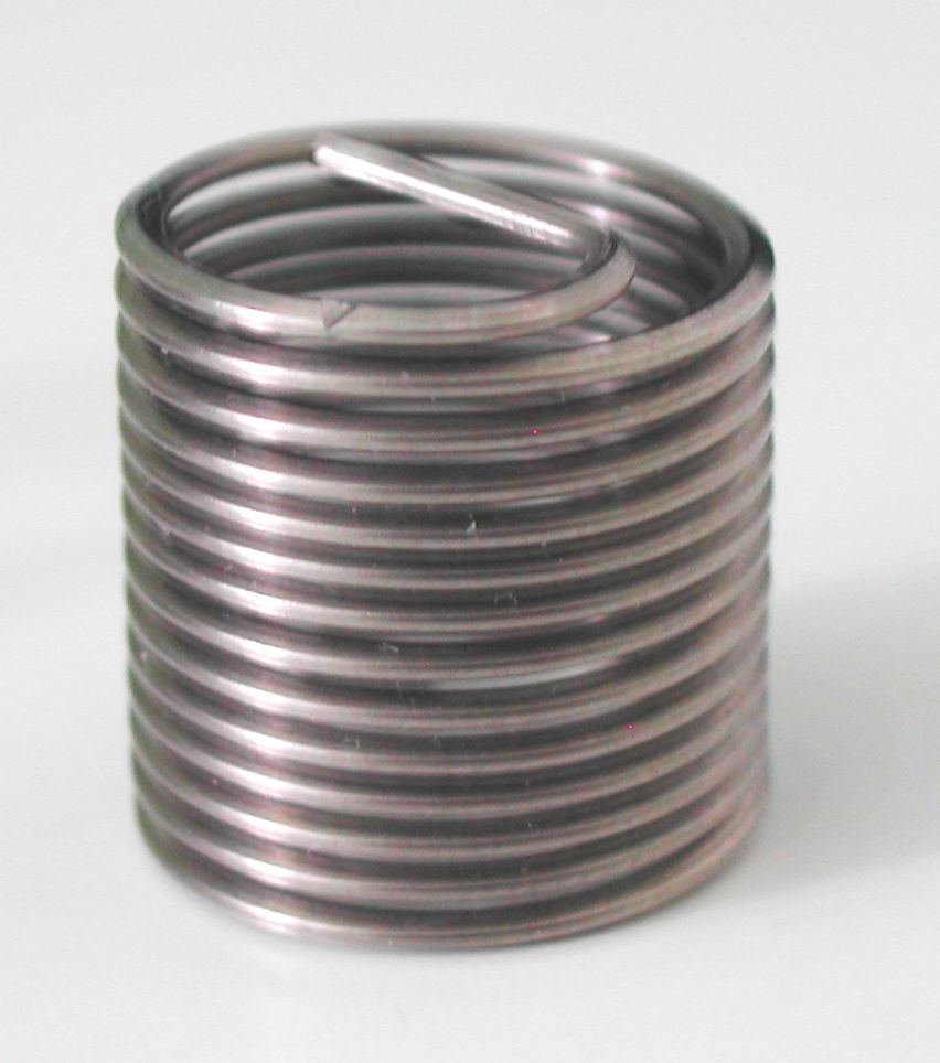 Helicoil M14x1.25 to repair worn-out or broken threads